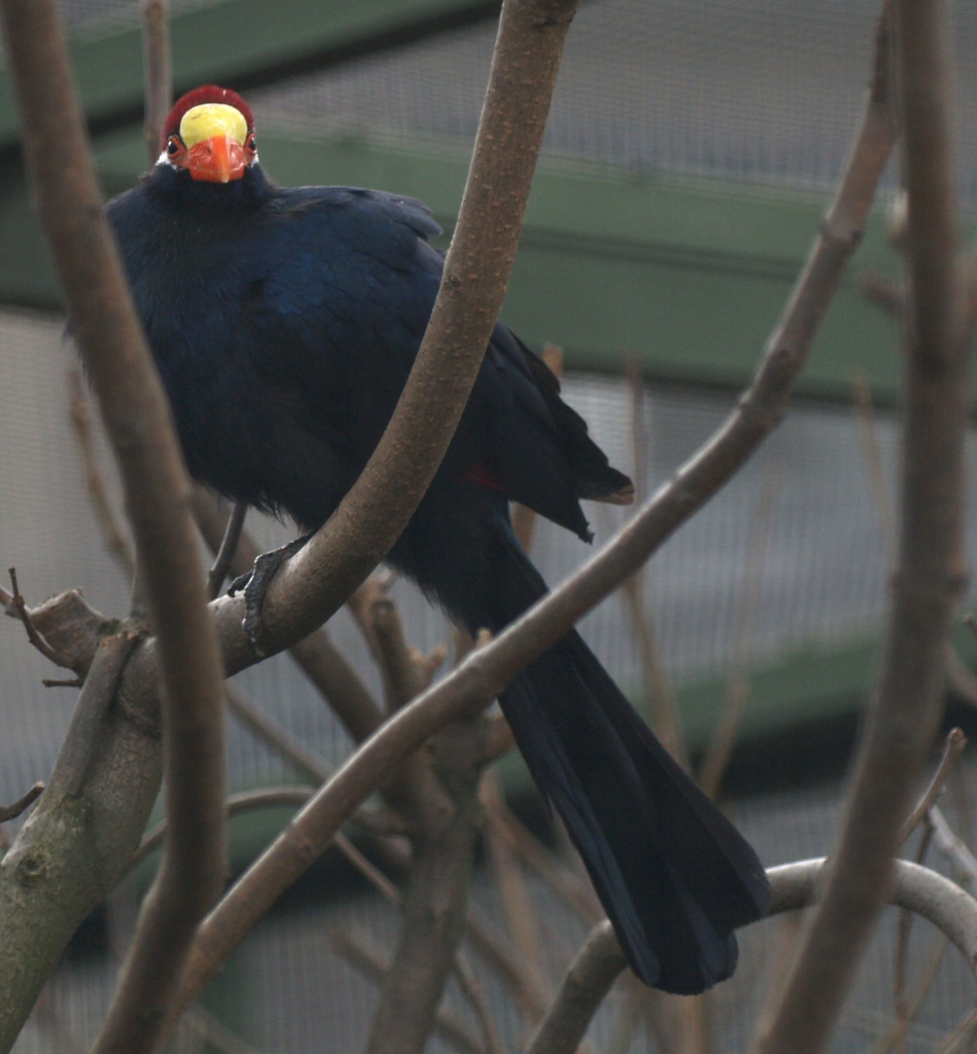 Musophaga violacea from Cologne Zoo, Germany.